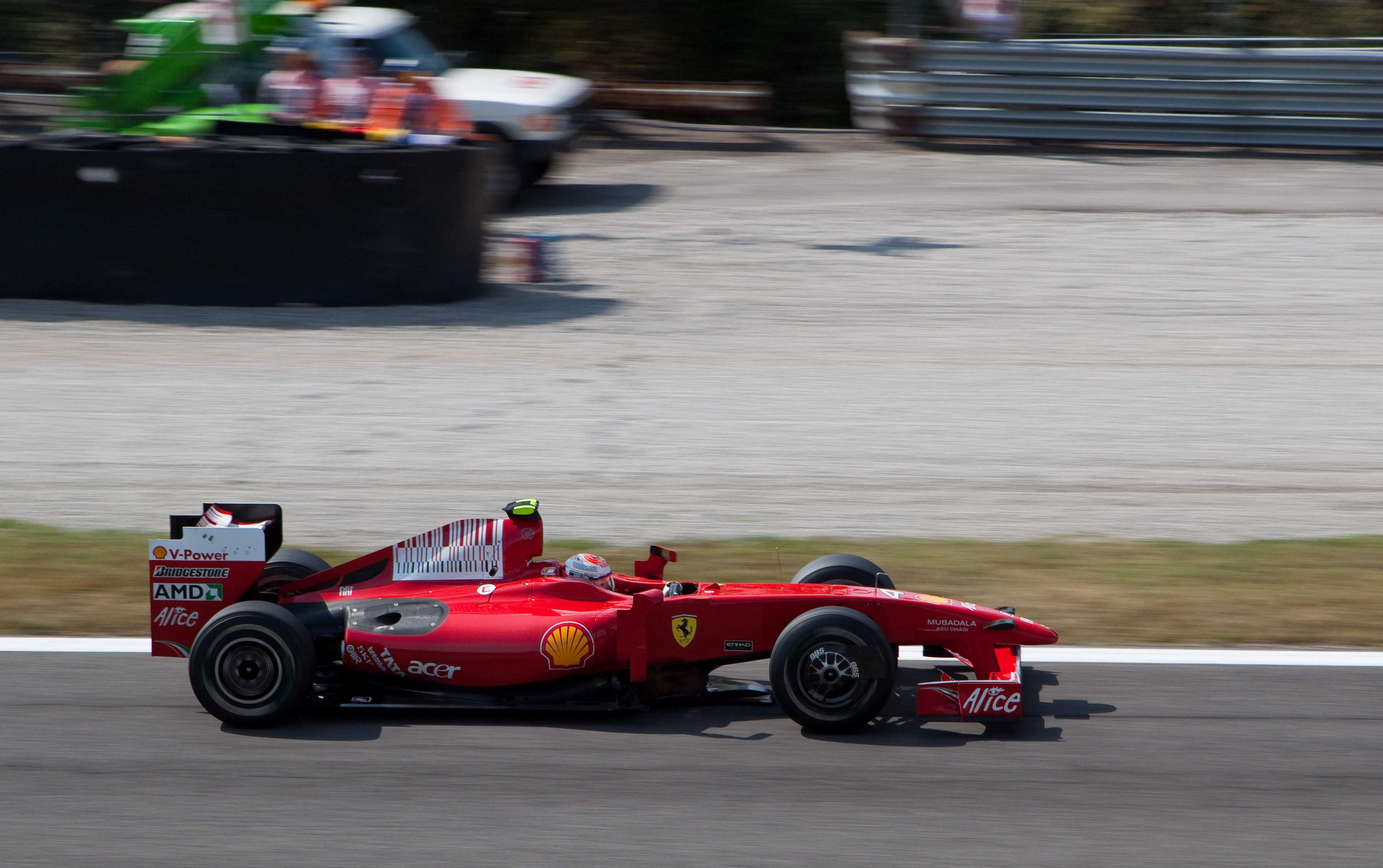 Kimi Räikkönen driving for Scuderia Ferrari at the 2009 Italian Grand Prix.